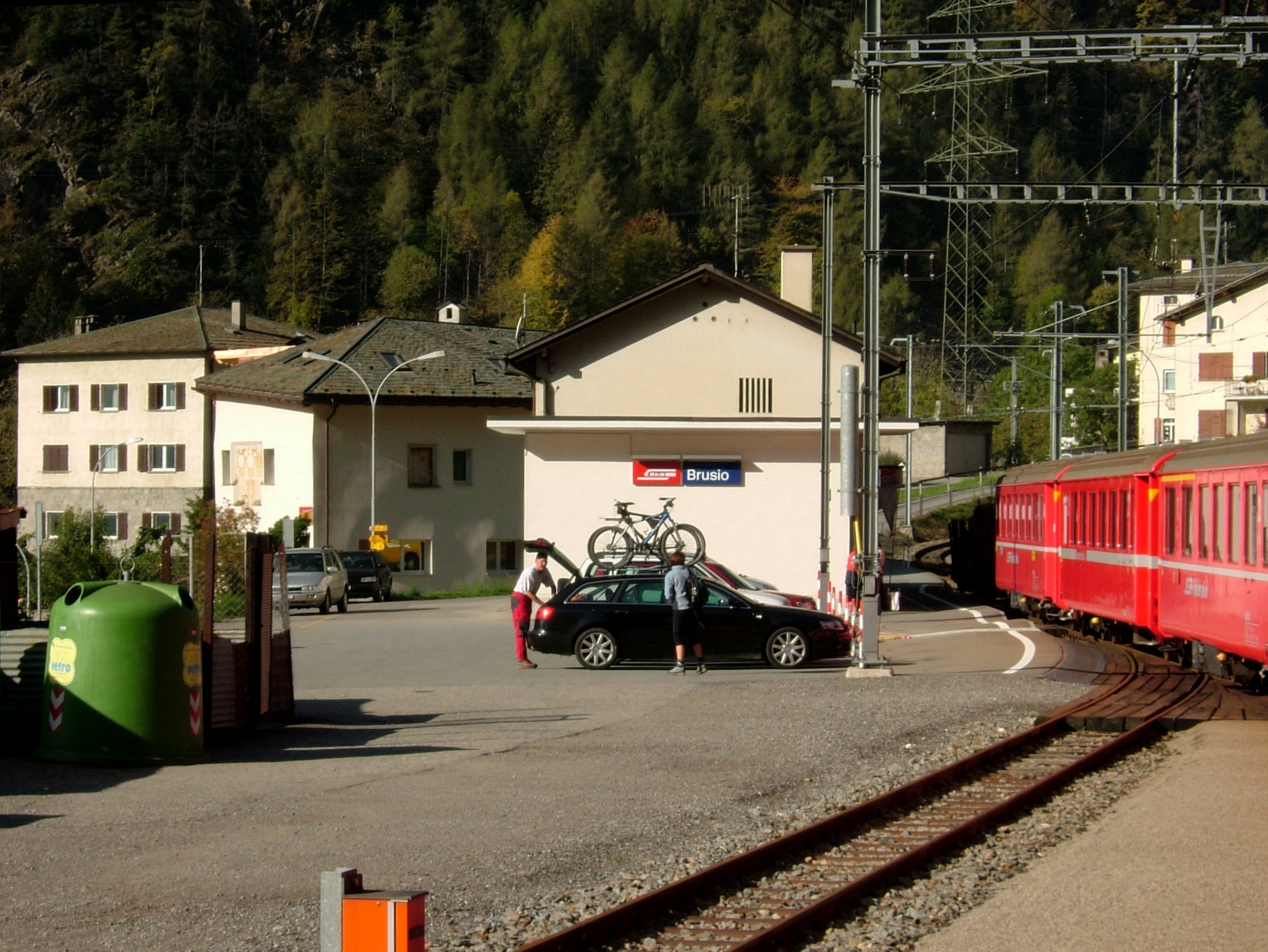 Bernina railwaySouthbound local train between Poschiavo and Tirano at Brusio train station